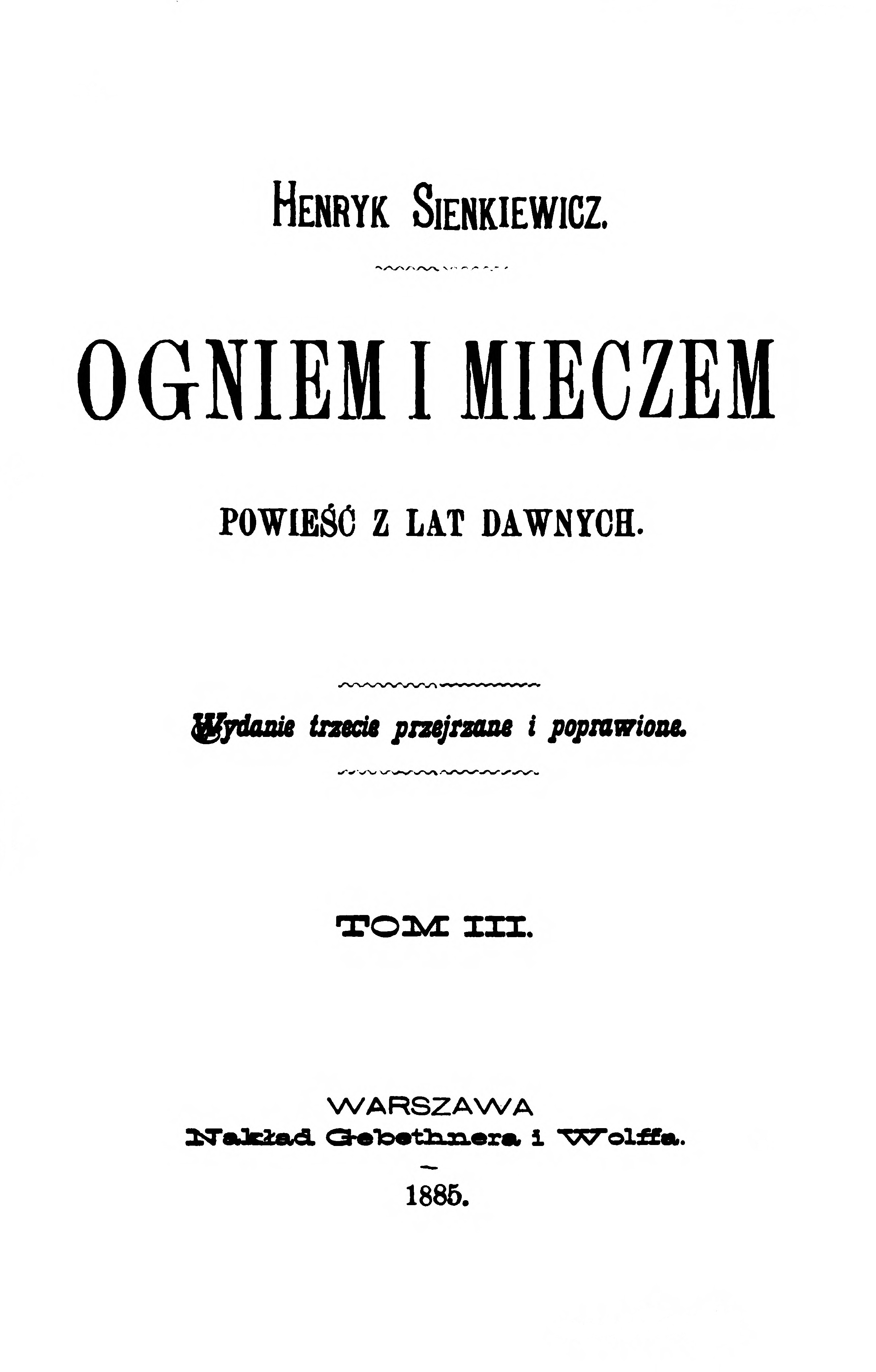 Title page of an 1885 edition of Ogniem I Mieczem (With Fire and Sword) by Henryk Sienkiewicz. Cleaned from Google scan via by Yodin.